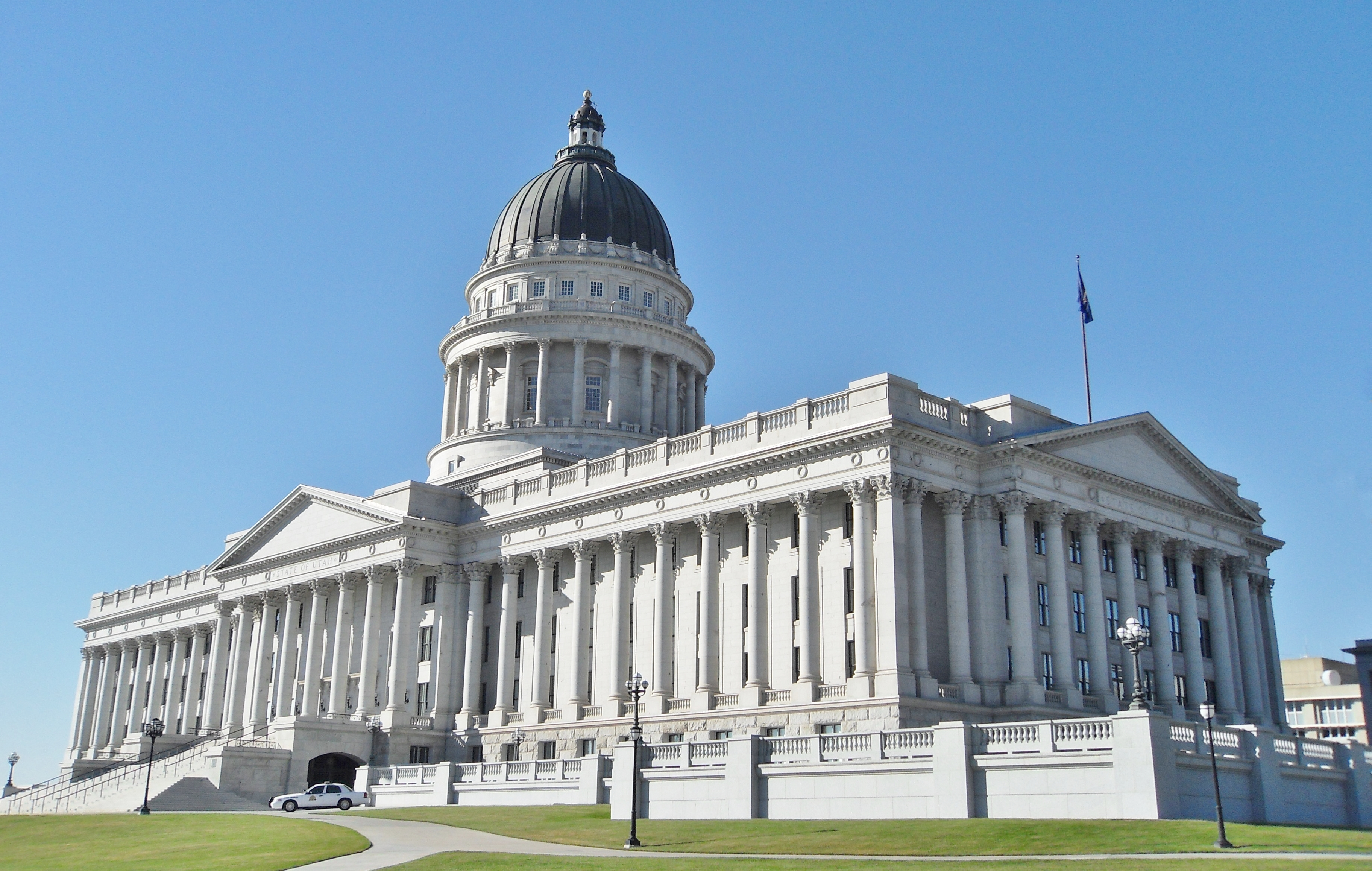 The exterior of the Utah State Capitol, looking at the corner of the front and east end.